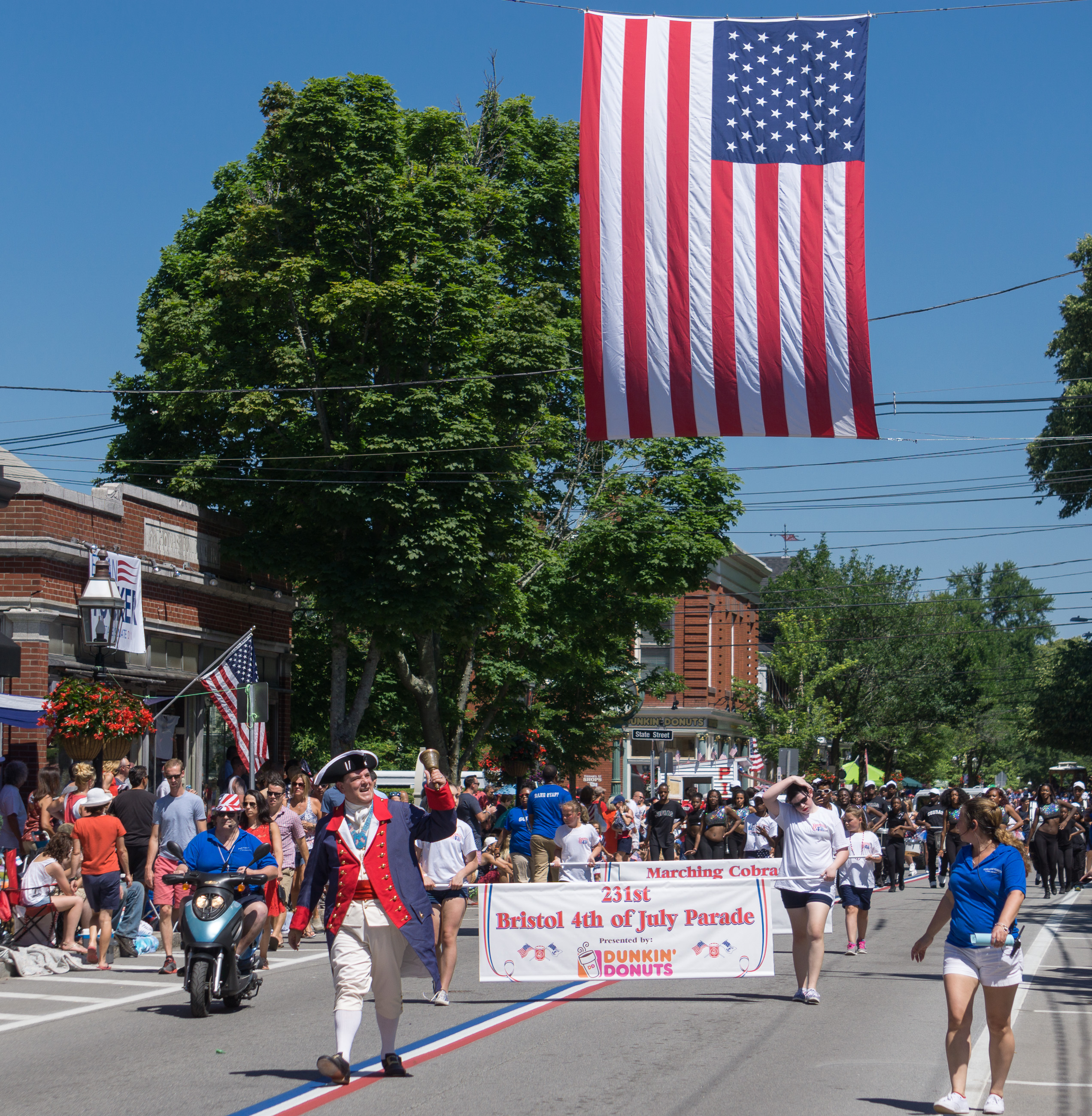 The start of the 231st 4th of July Parade in Bristol, Rhode Island 2016.